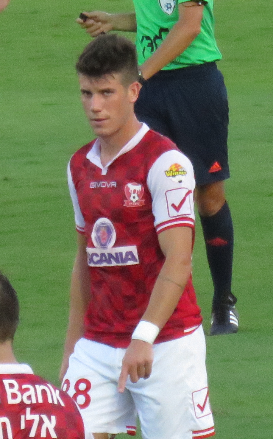 Maccabi Tel Aviv VS. Bnei Sakhnin 22/08/2015